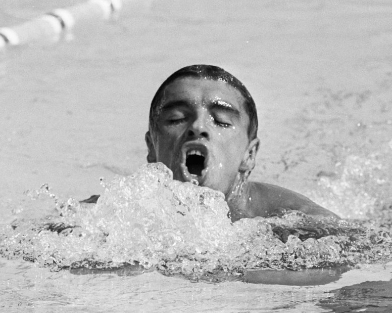 Oleg Fotin, 1966 European Championships